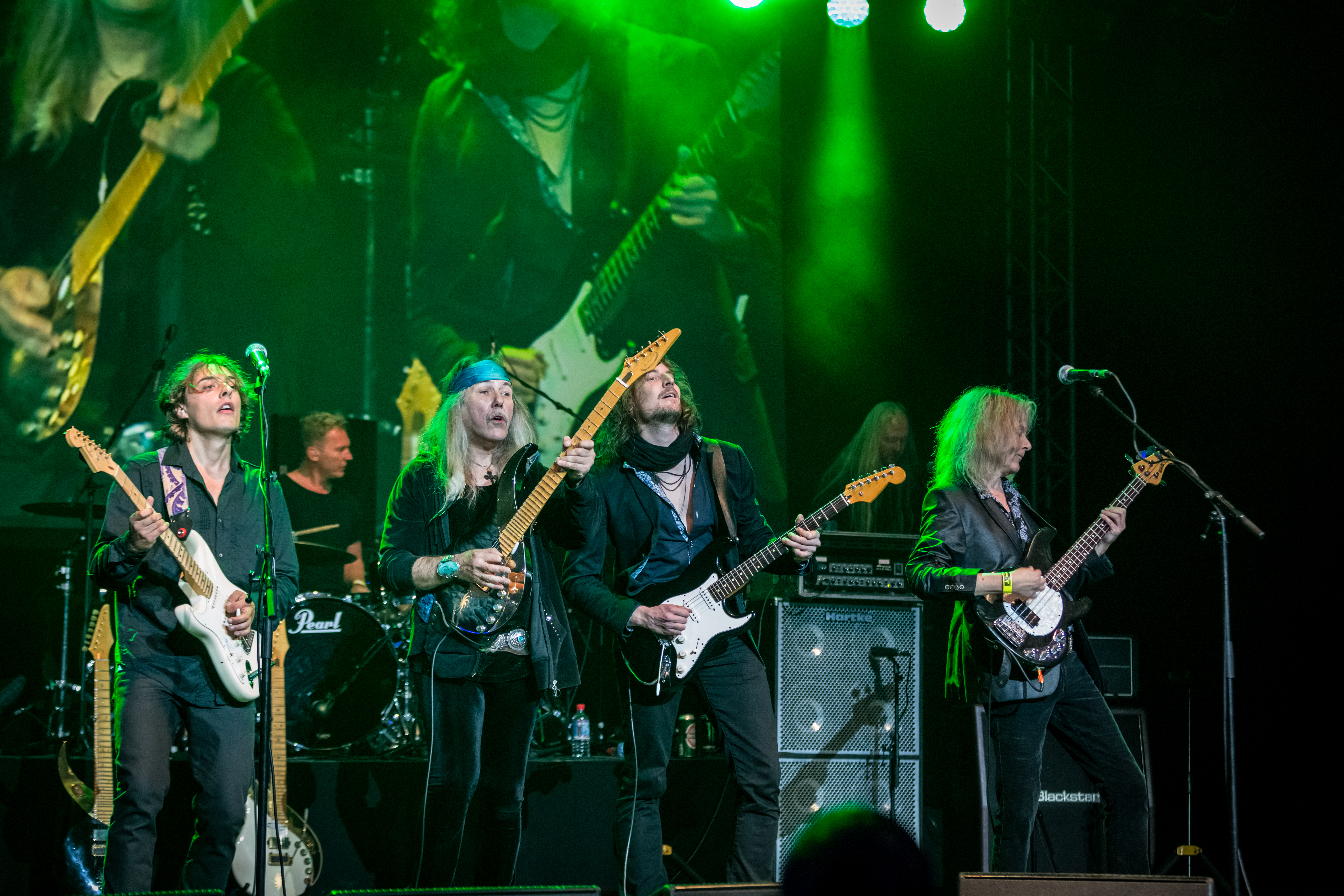 Uli Jon Roth - Wacken Open Air 2015